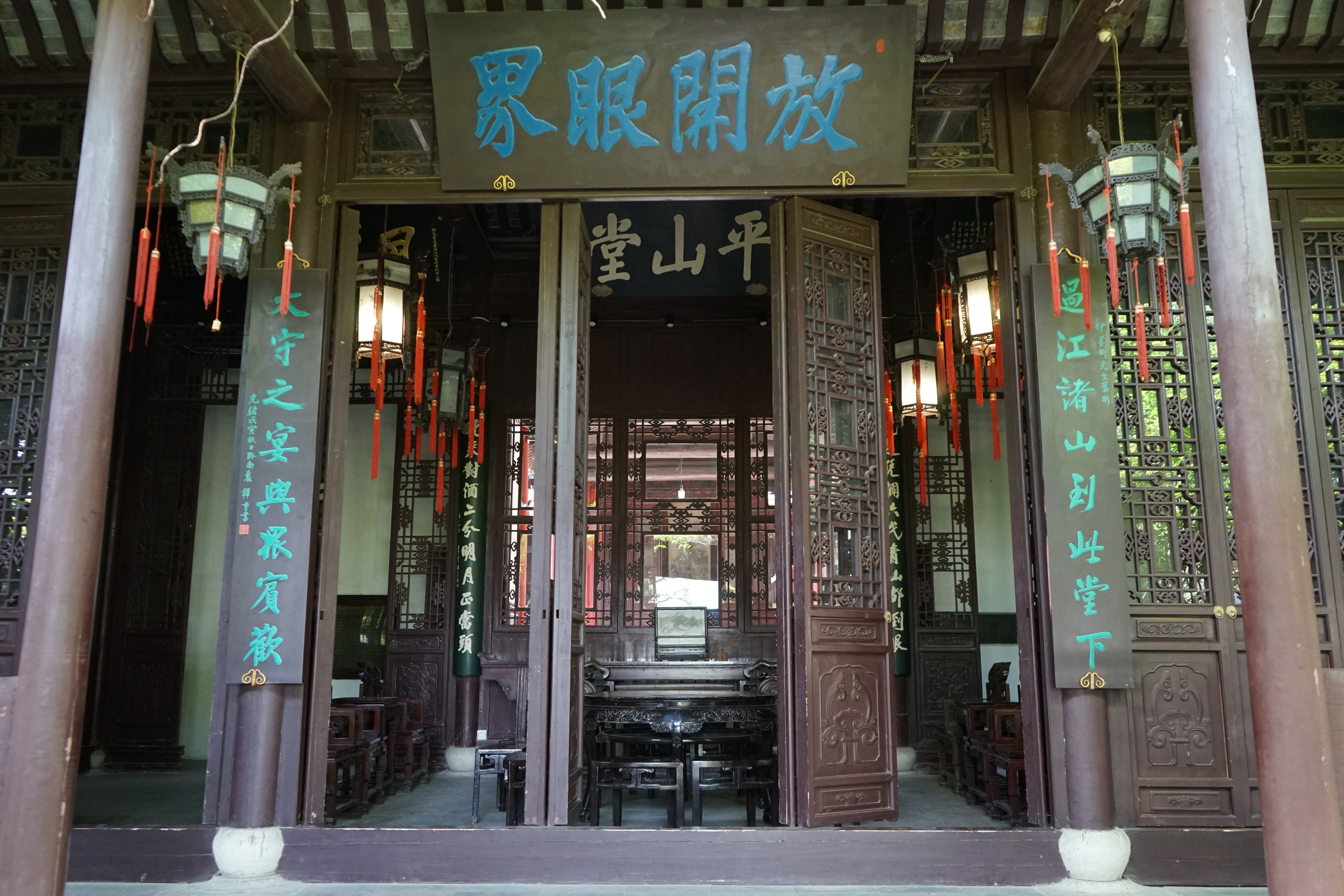 Pingshan Hall平山堂 was first built in 1048 by Ouyang Xiu who was the prefecture chief of Yangzhou. The hall overlooks the green mountains which are of the same altitude as the hall in the south part of the Yangtze River, thus there is the sentence "remote mountais are of the same level as the hall"远山来与此堂平 and consequently it;s called pingshan hall.